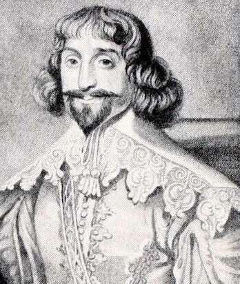 Sir Francis Ottley, Royalist military governor of Shrewsbury in the early stages of the English Civil War